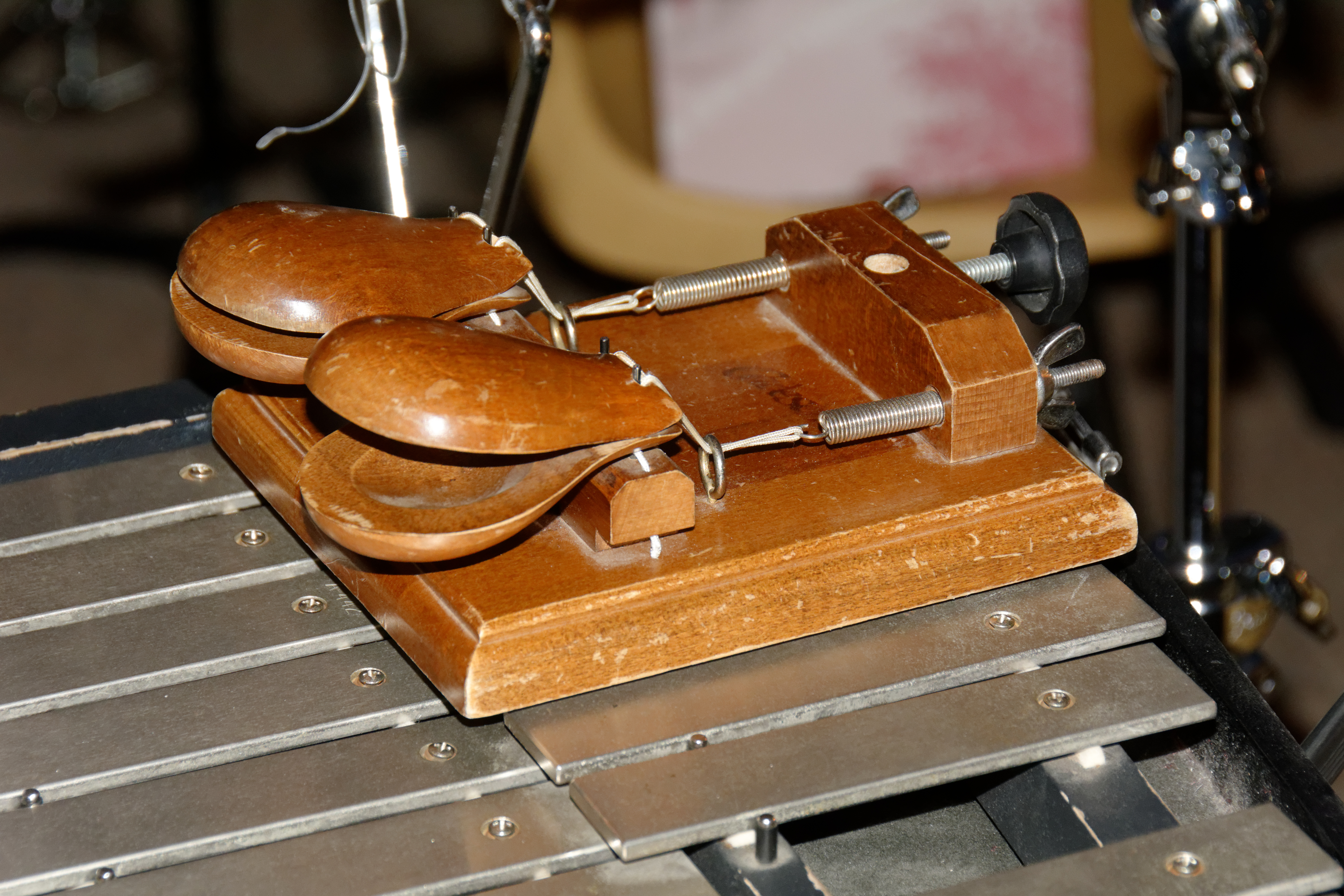 Personality rights warningAlthough this work is freely licensed or in the public domain, the person(s) shown may have rights that legally restrict certain re-uses unless those depicted consent to such uses. In these cases, a model release or other evidence of consent could protect you from infringement claims.